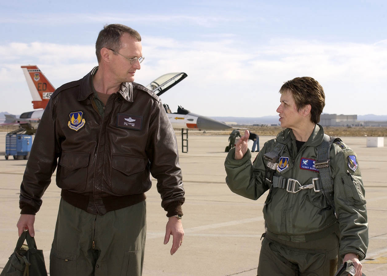 Lieutenant Gen. Terry Gabreski (right), Air Force Materiel Command vice commander, and Lt. Col. Dale Parsons, U.S. Air Force Test Pilot School director of special courses, discuss the general's F-16 mission during a Test Pilot School Senior Executive Short Course held Jan. 9 through 12 at Edwards Air Force Base, Calif. (Air Force photo by Chad Bellay)